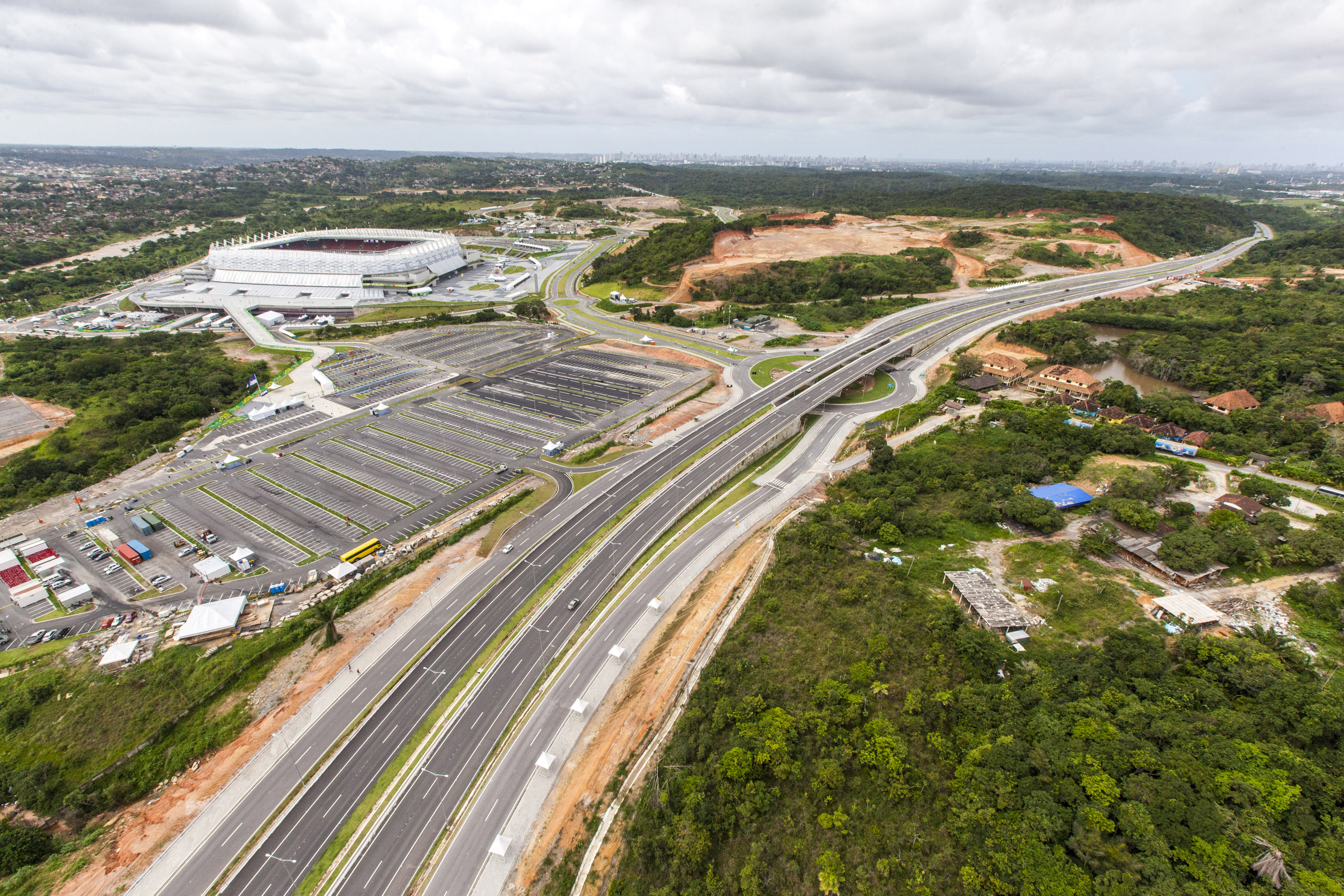 Itaipava Pernambuco Arena on June, 2013